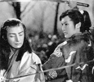 Chiyonosuke Azuma(left) and Kinnosuke Nakamura in 1955 Japnese movie Shinshokoku monogatari,benikujaku dai-sanpen:Tsuki no hakkotsujō